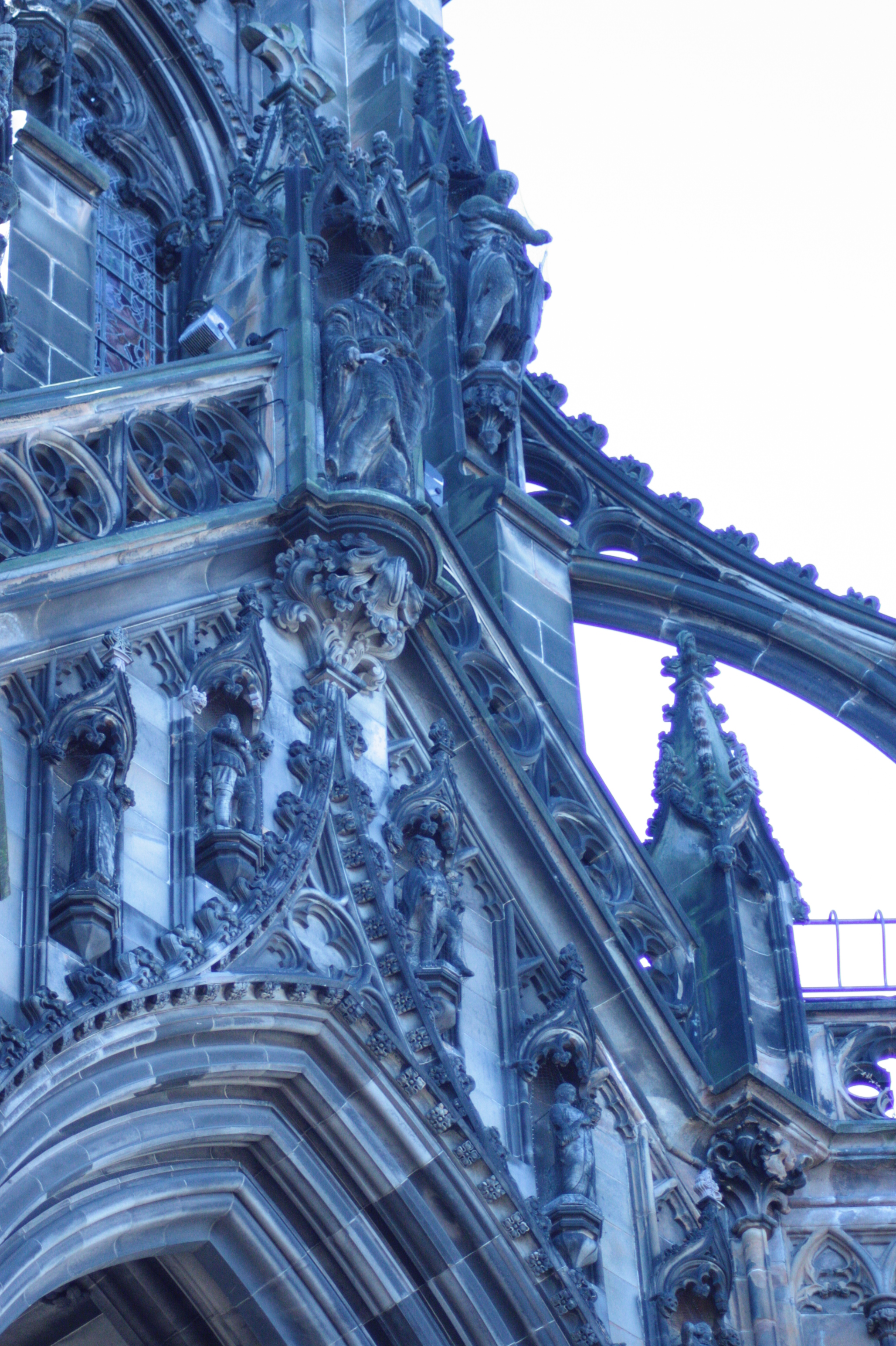 Statuary detail Scott Monument, Princes Street, Edinburgh